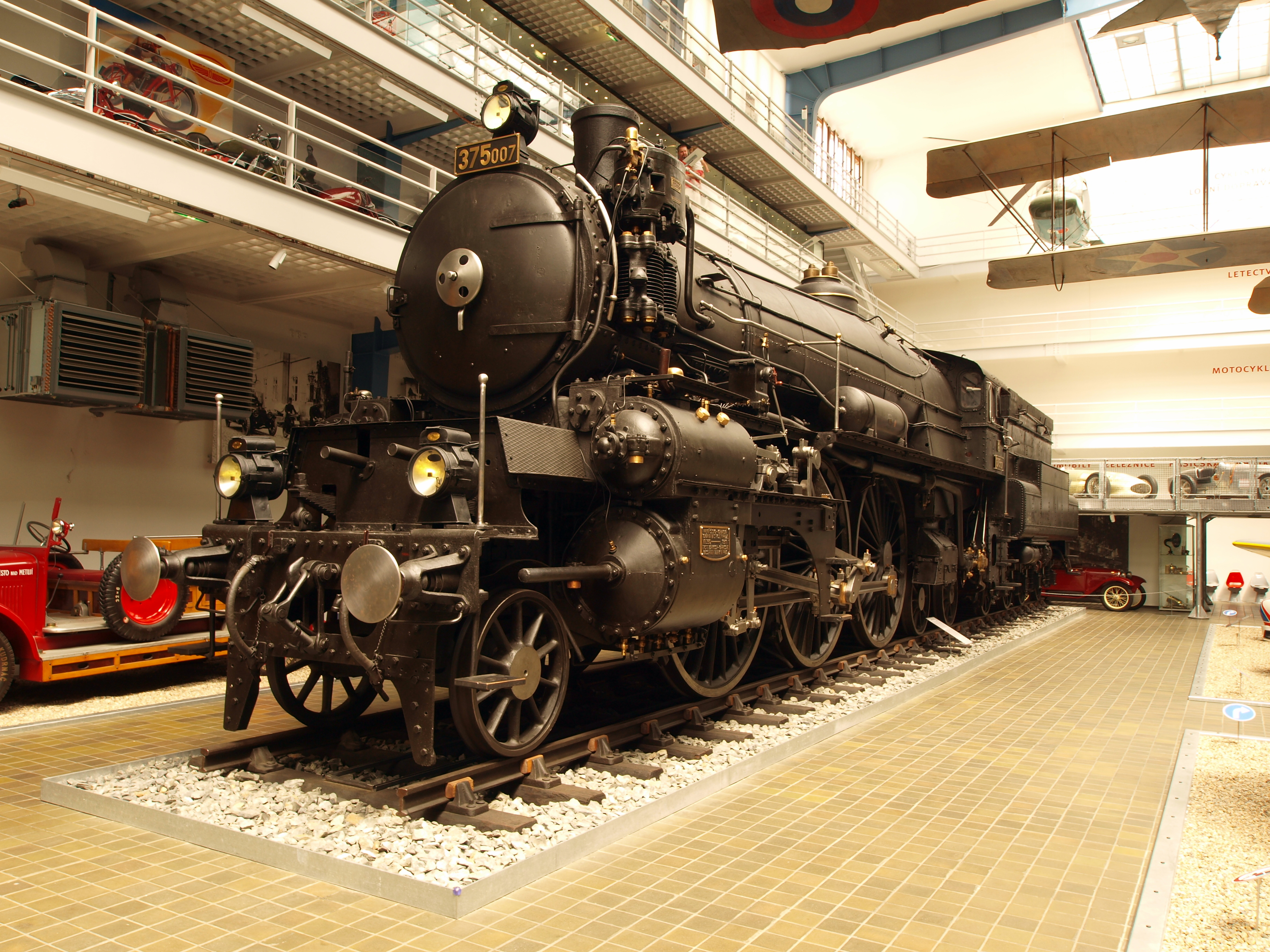 1911 Express steam locomotive 375.007 Hrboun (Humpback) with 1915 trailing tender 821.039 pic2